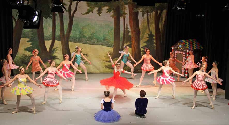 Show in Haiger